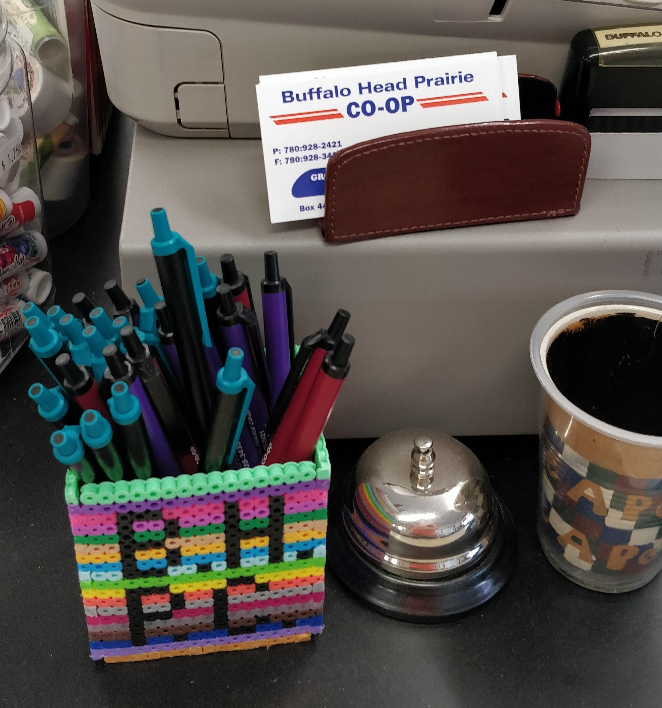 Insignia of the Buffalo Head Prairie Co-op, the only business in the Mennonite farming hamlet of Buffalo Head Prairie, Alberta.